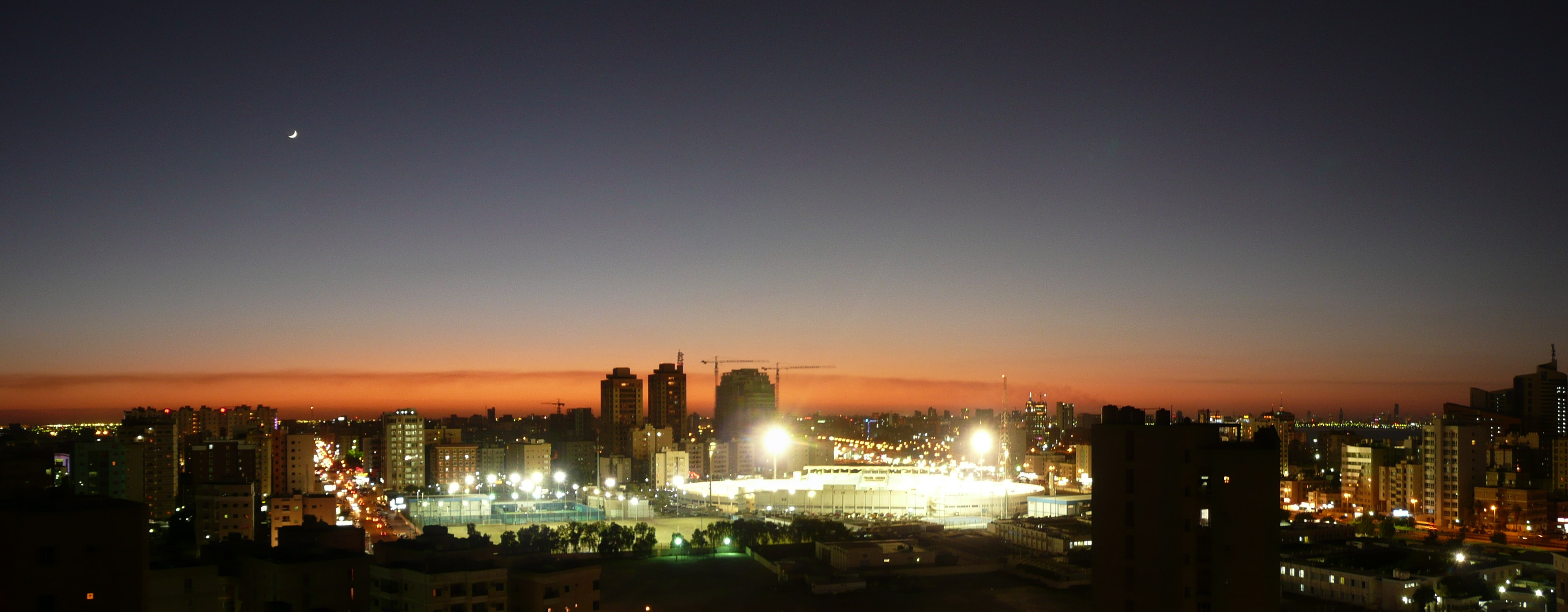 A stitched panorama of the evening view from our living room balcony in salmiya, Kuwait